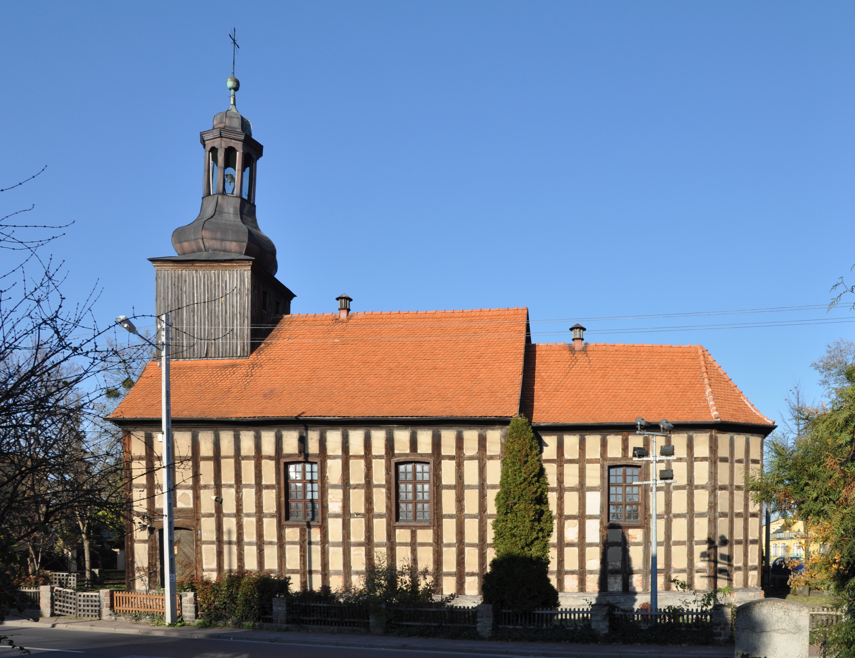 Holy Cross Church in Oborniki (Wielkopolska), since 1766